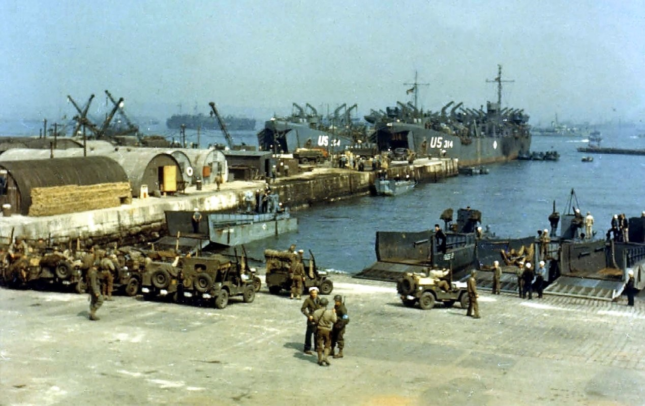 General view of a port in England; in foreground, jeeps are being loaded onto LCTs LCM(3)s(?) - in background, larger trucks and ducks are being loaded onto LSTs. Undated - June 1944. Shows USS LST-314 and one unidentified LST, possibly USS LST-374. These LSTs were used in the initial landings on Omaha Beach.